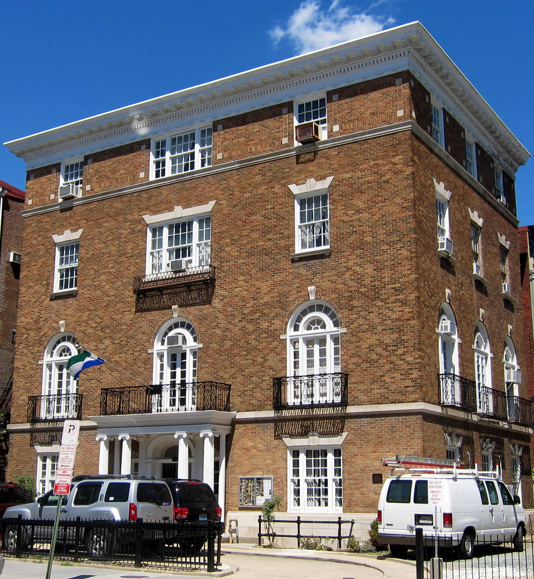 The Embassy of Sierra Leone located at 1701 19th Street, N.W., in the Dupont Circle neighborhood of Washington, D.C. Built in 1917 to the designs of noted architect Jules Henri de Sibour, the 21-room, Beaux-Arts former private residence is designated as a contributing property to the Dupont Circle Historic District, listed on the National Register of Historic Places in 1978. Former occupants include U.S. Senator Frank B. Kellogg, Assistant Secretary of State Joseph P. Cotton, philanthropist and diplomat Myron C. Taylor, and the United Nations Club.